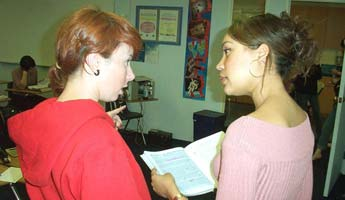 Teacher talking to student at LSI